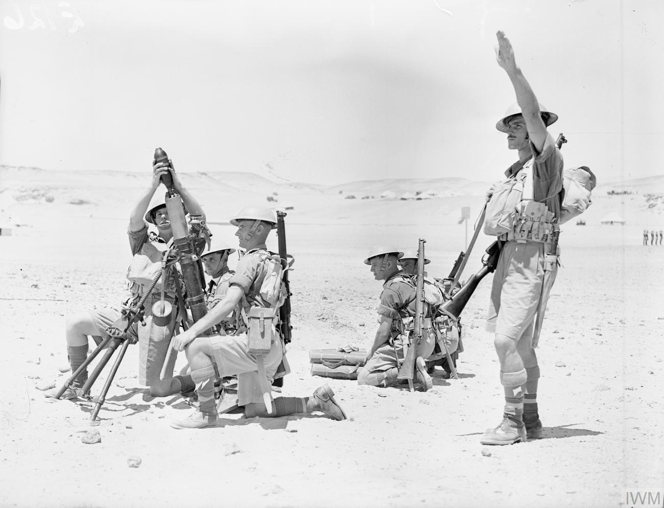 The British Army in North Africa A 3-inch mortar crew of the 2nd Cameron Highlanders training at Mena Camp near Giza, Egypt, 4 June 1940.